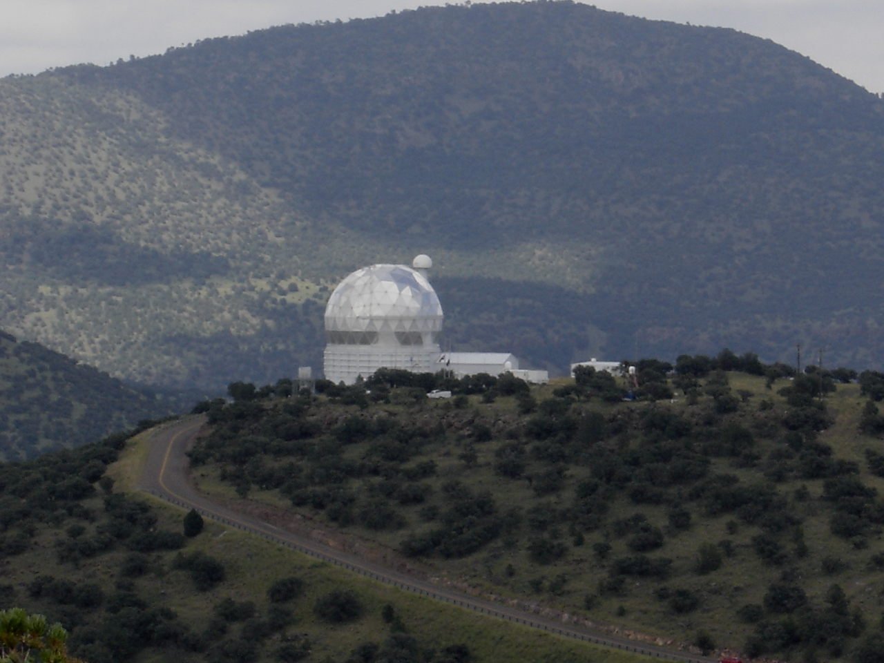 The Hobby-Eberly Telescope site, McDonald Observatory, Texas.